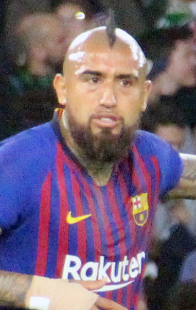 Arturo Vidal playing for FC Barcelona vs Real Betis, 17/03/2019